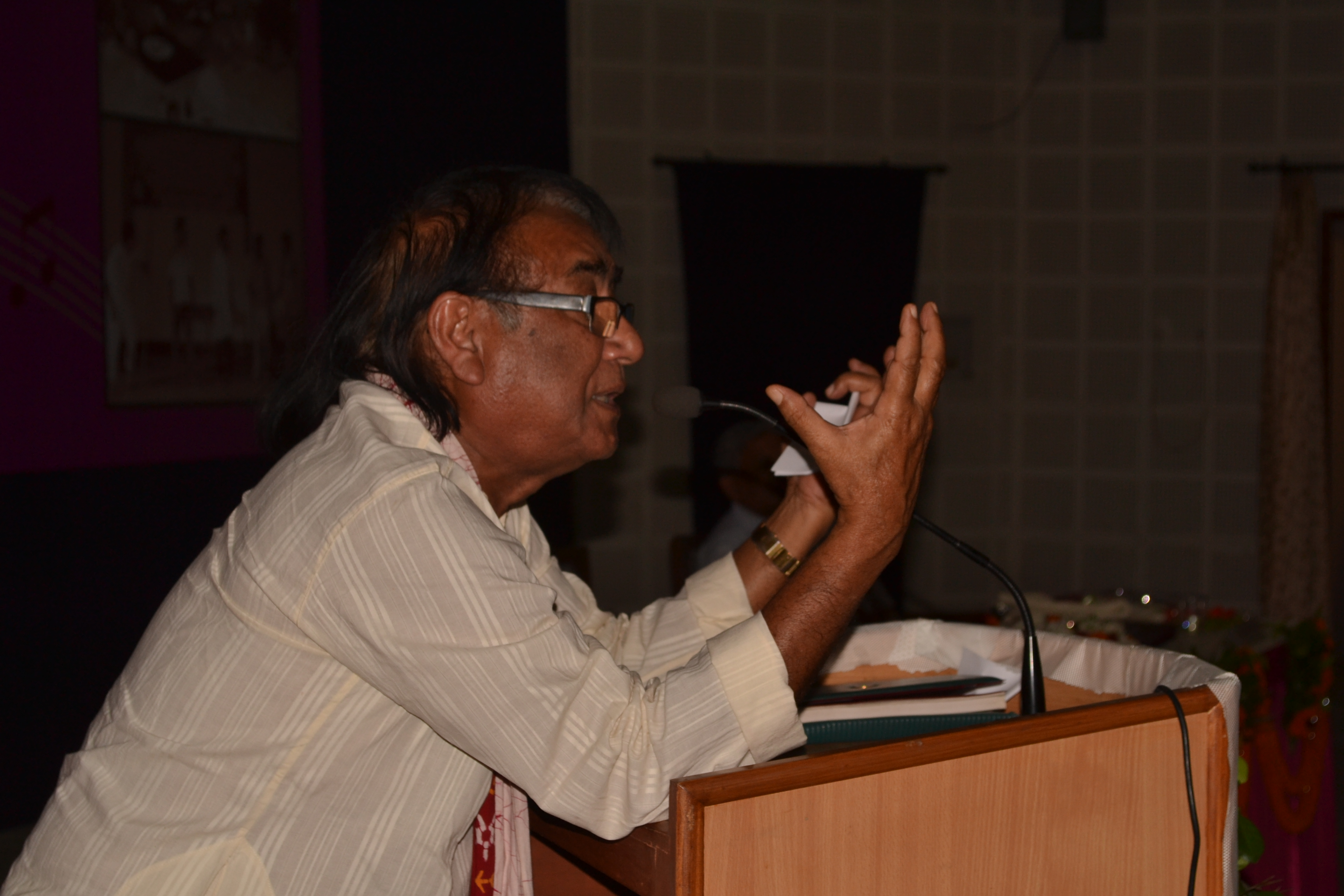 Jahar Dasgupta at Mahatma Gandhi Kashi Vidyapith University